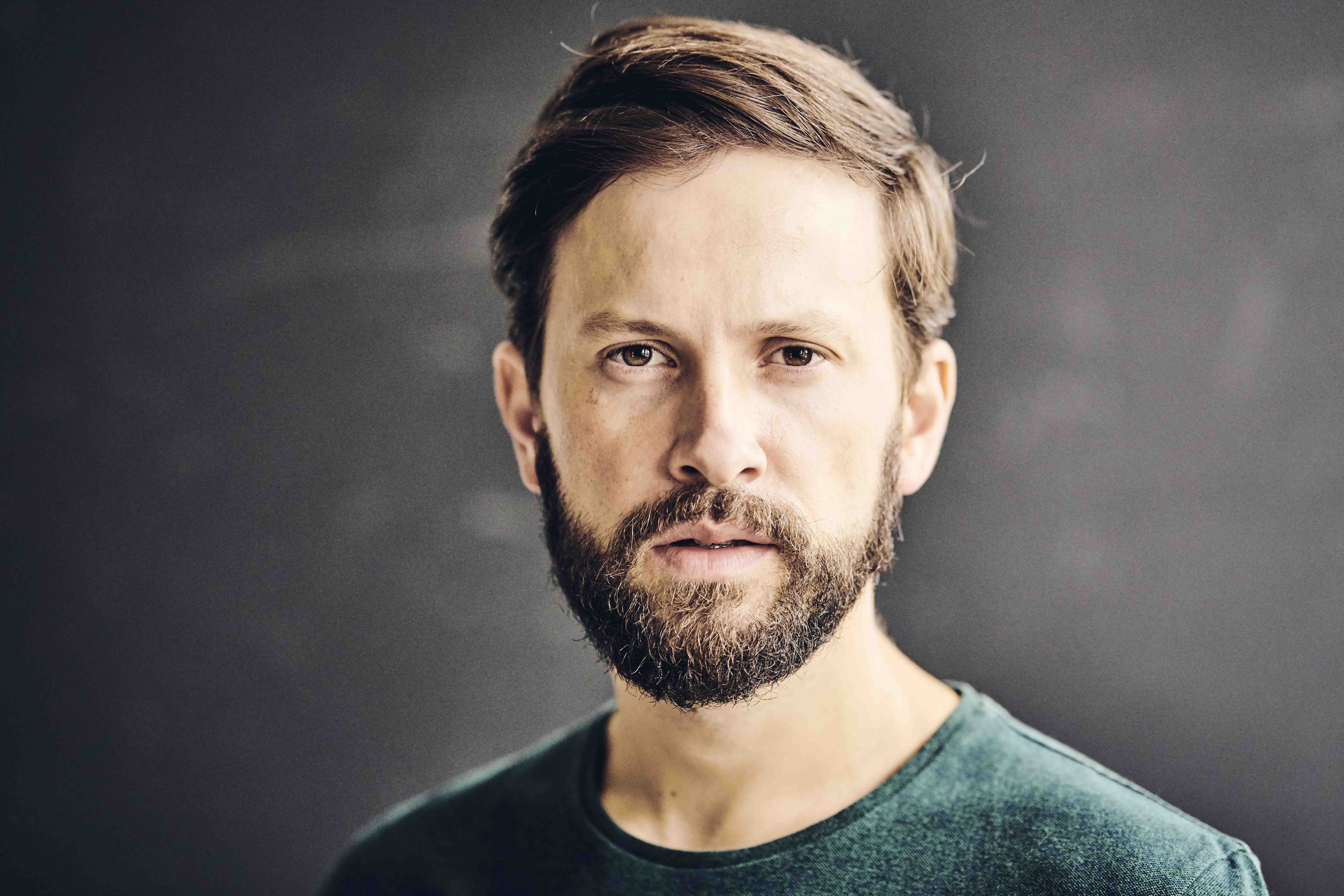 20180830_franzdinda